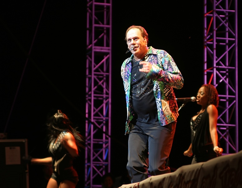 Harry Wayne Casey (KC) of KC & The Sunshine Band performing at the Del Mar CA Fairgrounds.